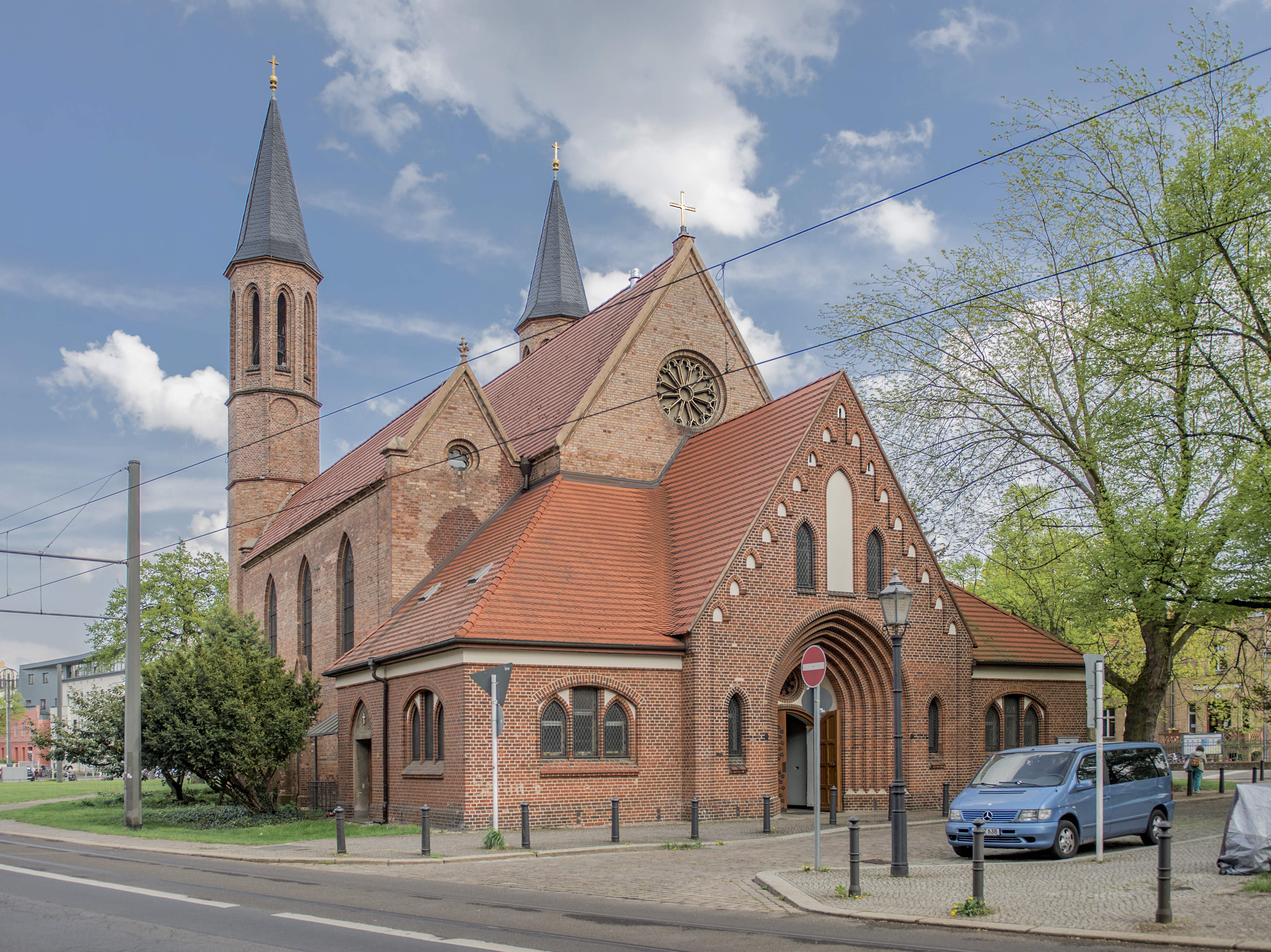 Old Parish Church Pankow "The Four Evangelists"